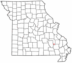 Modified from a map on Wikipedia.